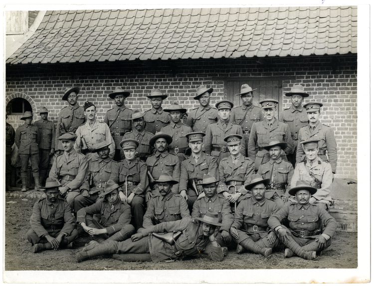 British & Indian officers 9th Gurkhas at their headquarters in France [St Floris].